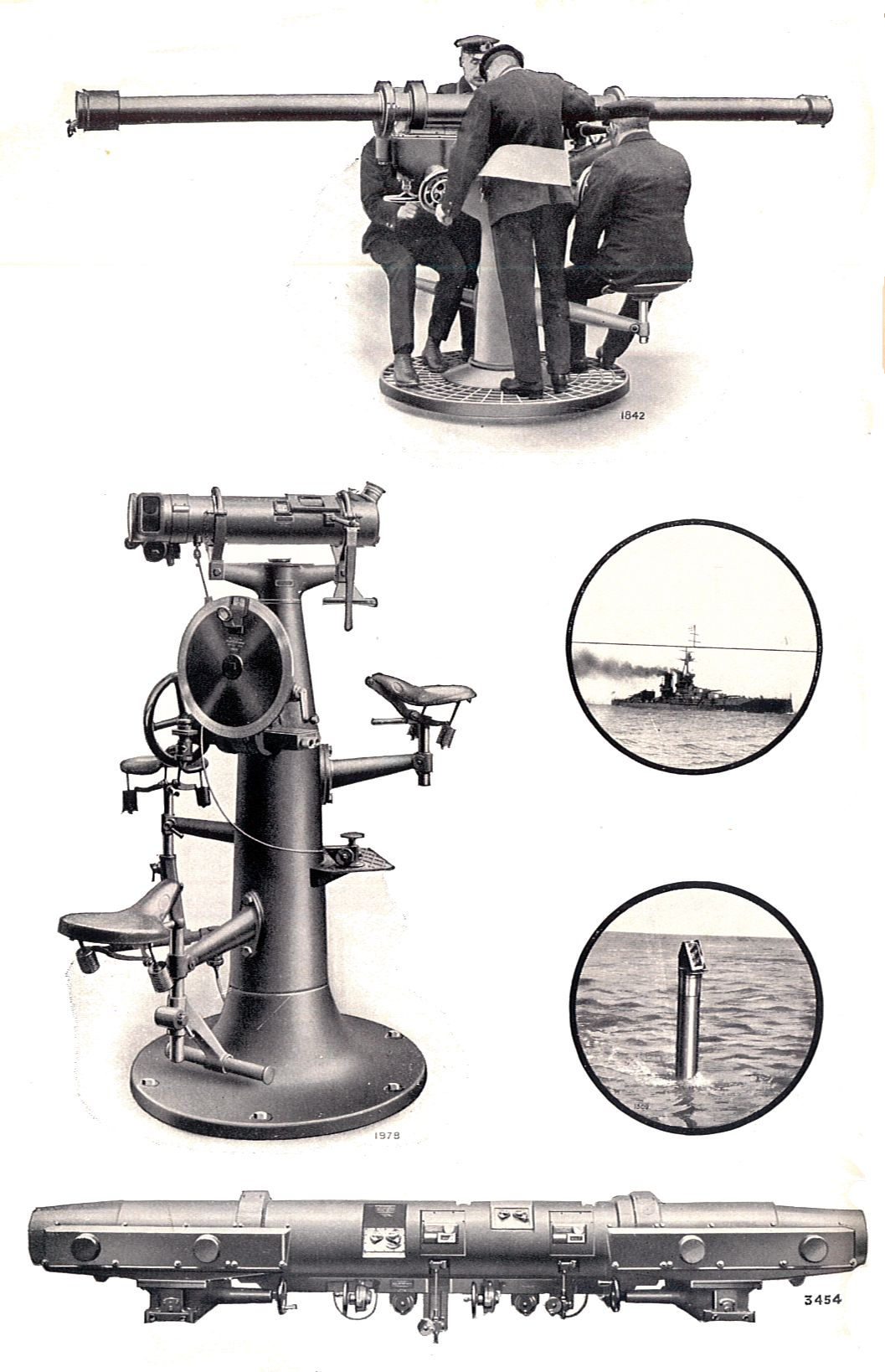 Range-finding Instruments Photo: By Courtesy of Messrs. Barr & Stroud